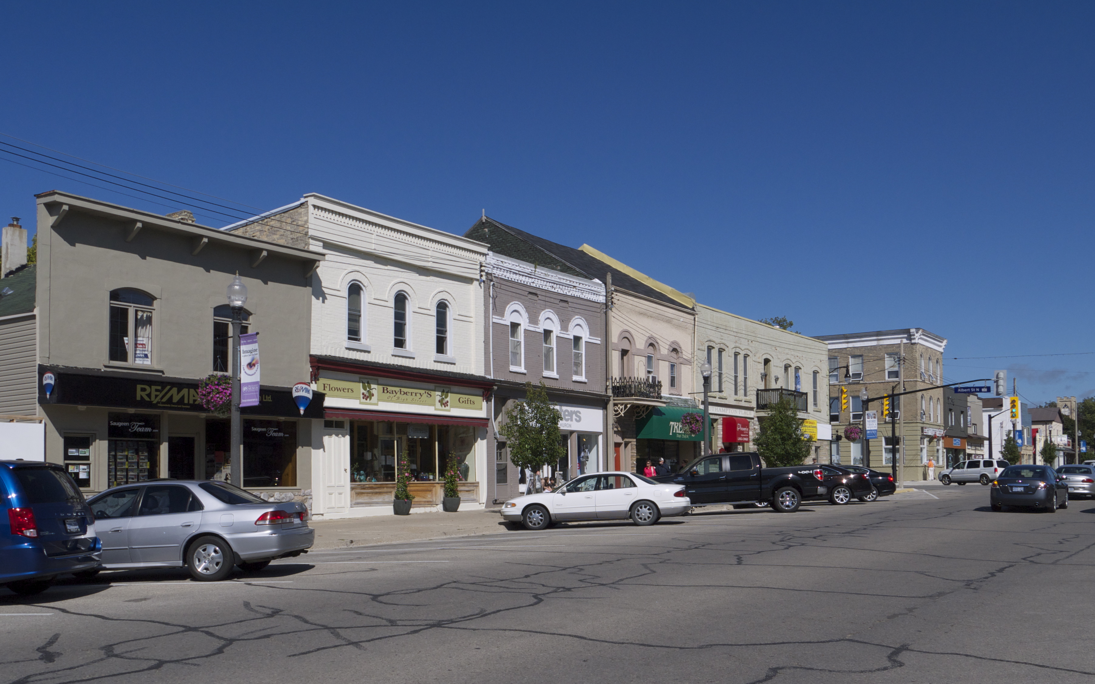 High Street in Southampton, Ontario.